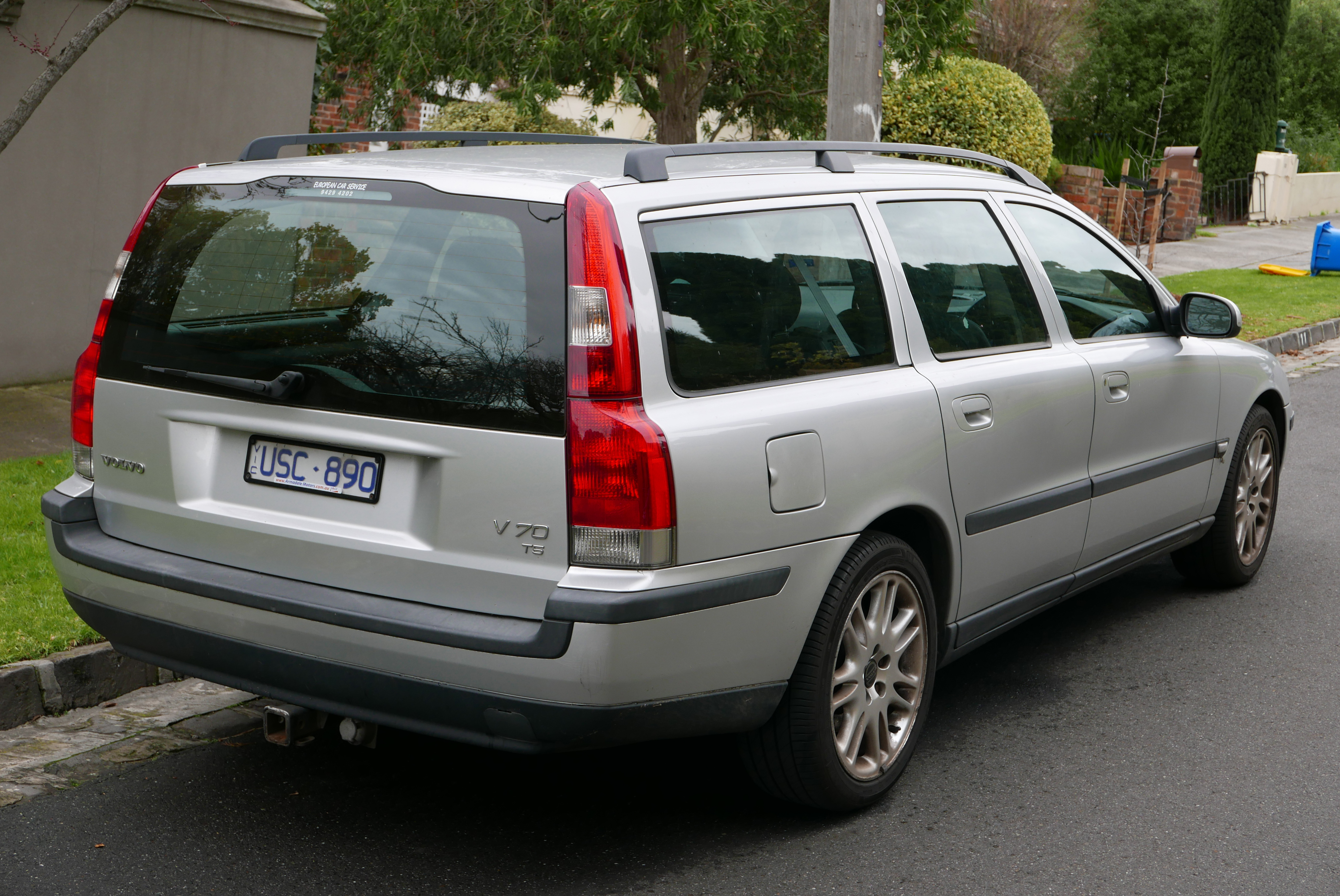 2001 Volvo V70 (MY01) T5 station wagon. Photographed in Kew, Victoria, Australia. Vehicle registration enquiry resultsJurisdictionVictoriaRegistrationUSC890Chassis codeYV1SW53K912087361Engine code2344917Compliance date2001-04Year of manufacture2001